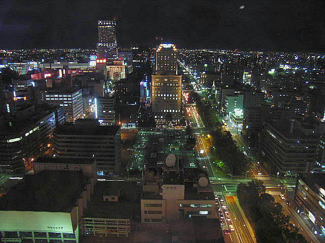 Night of the center of Sapporo Place - Odori Park, Chuo-ku, Sapporo, Hokkaido, Japan. From Sapporo TV Tower toward north. Format - JPEG, 640x480 pixel, 24bit colors. Center high buildings are two Hotels. The far left building is JR Tower and the lights of the Sappro Station make a horizontal line from its left. Sosei River (Sosei Gawa) and The Soseigawa Road run from this right side.